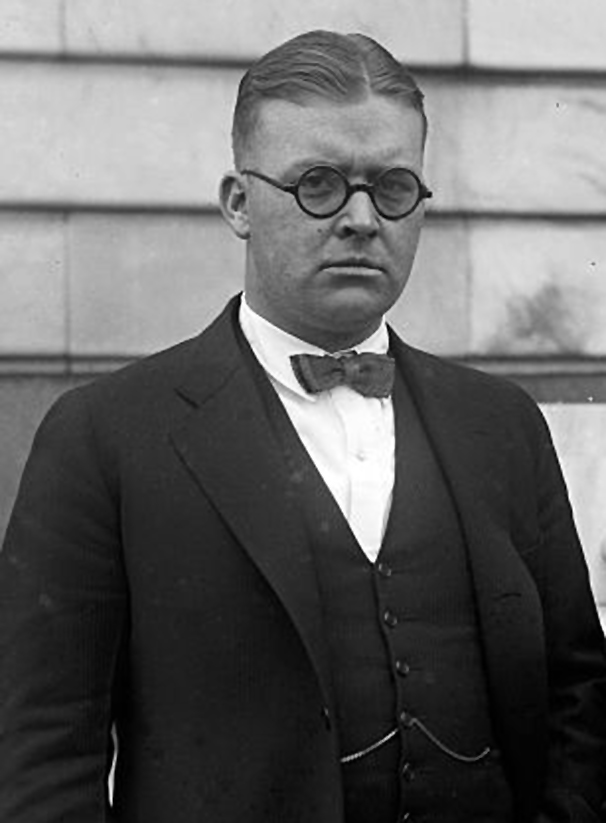 Samuel J. Montgomery, US Representative from Oklahoma